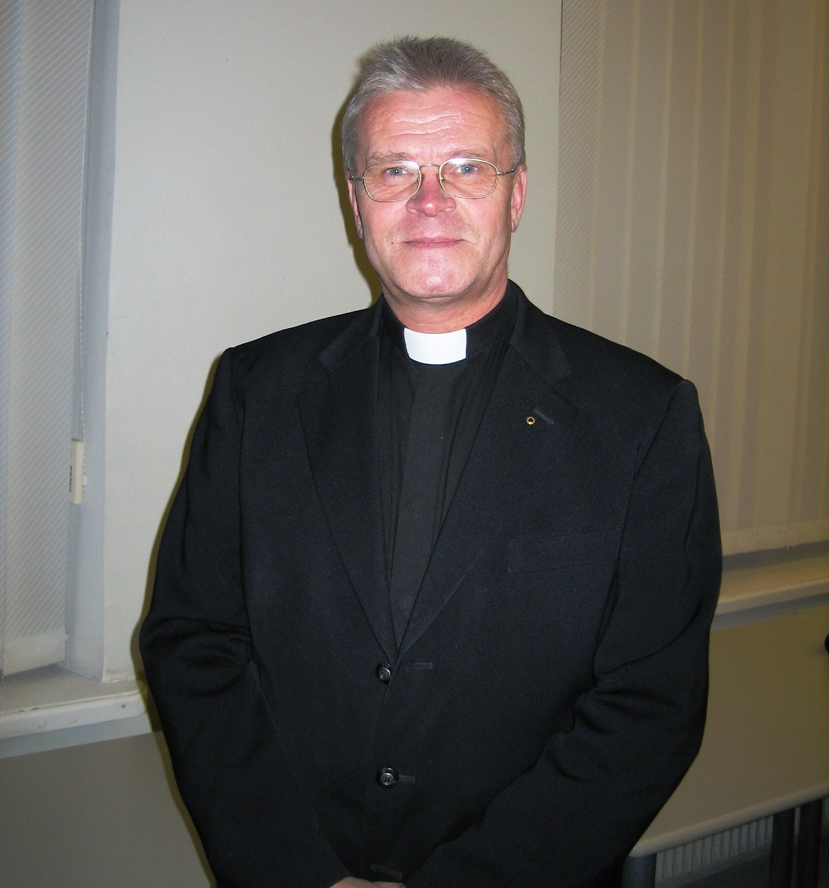 Andres Põder (born 1949) is the current Archbishop of the Evangelical Lutheran Church of Estonia.